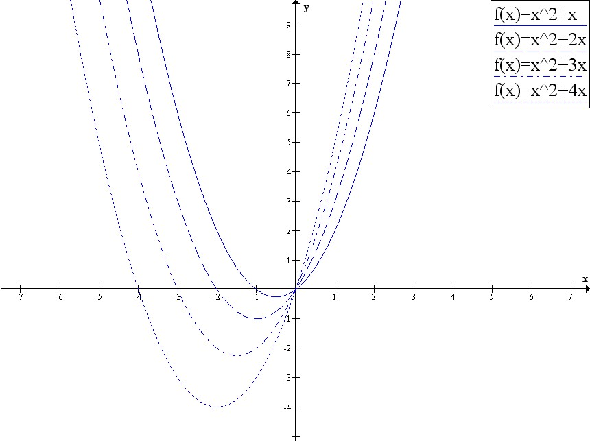 Graphic of these functions